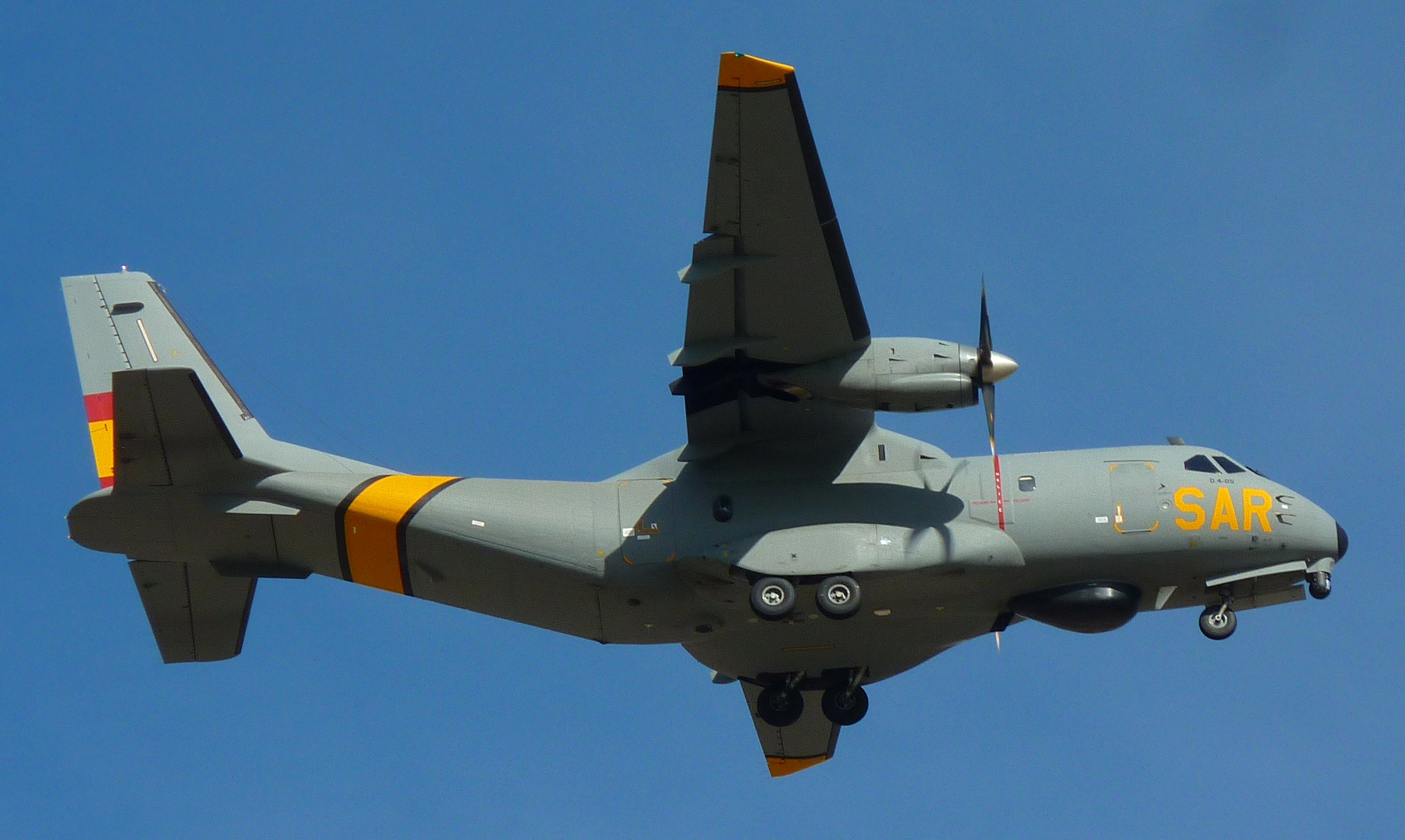 Spanish Air Force CN-235 VIGMA (maritime patrol/SAR).